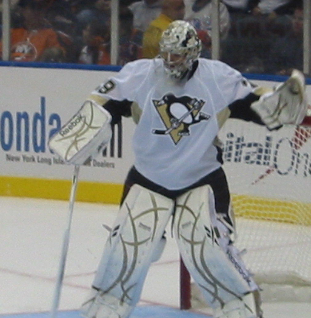 Marc-André Fleury in goal on October 3, 2009 against the New York Islanders.